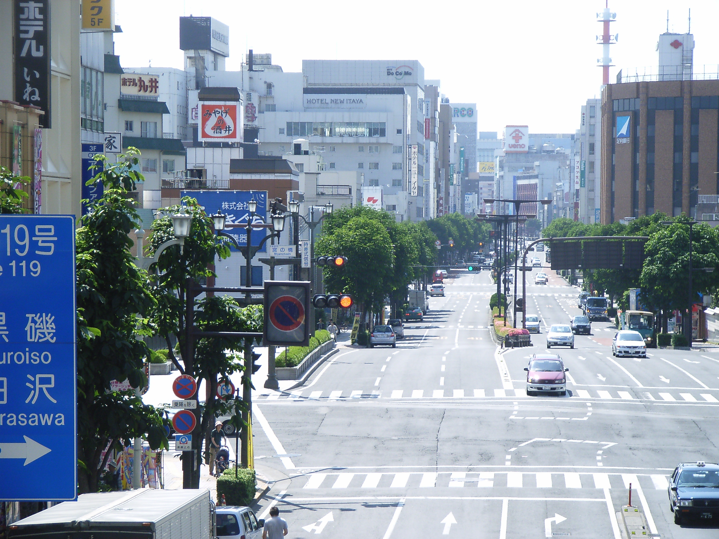 The Tochigi Prefectural Road Route 10, one of the principal streets in Utsunomiya City. The Miya Bridge over the Ta River connects to the intersection here. Seen westward from the pedestrian deck on the west side of Utsunomiya Station in Ekimaedori 1-chome, Utsunomiya City